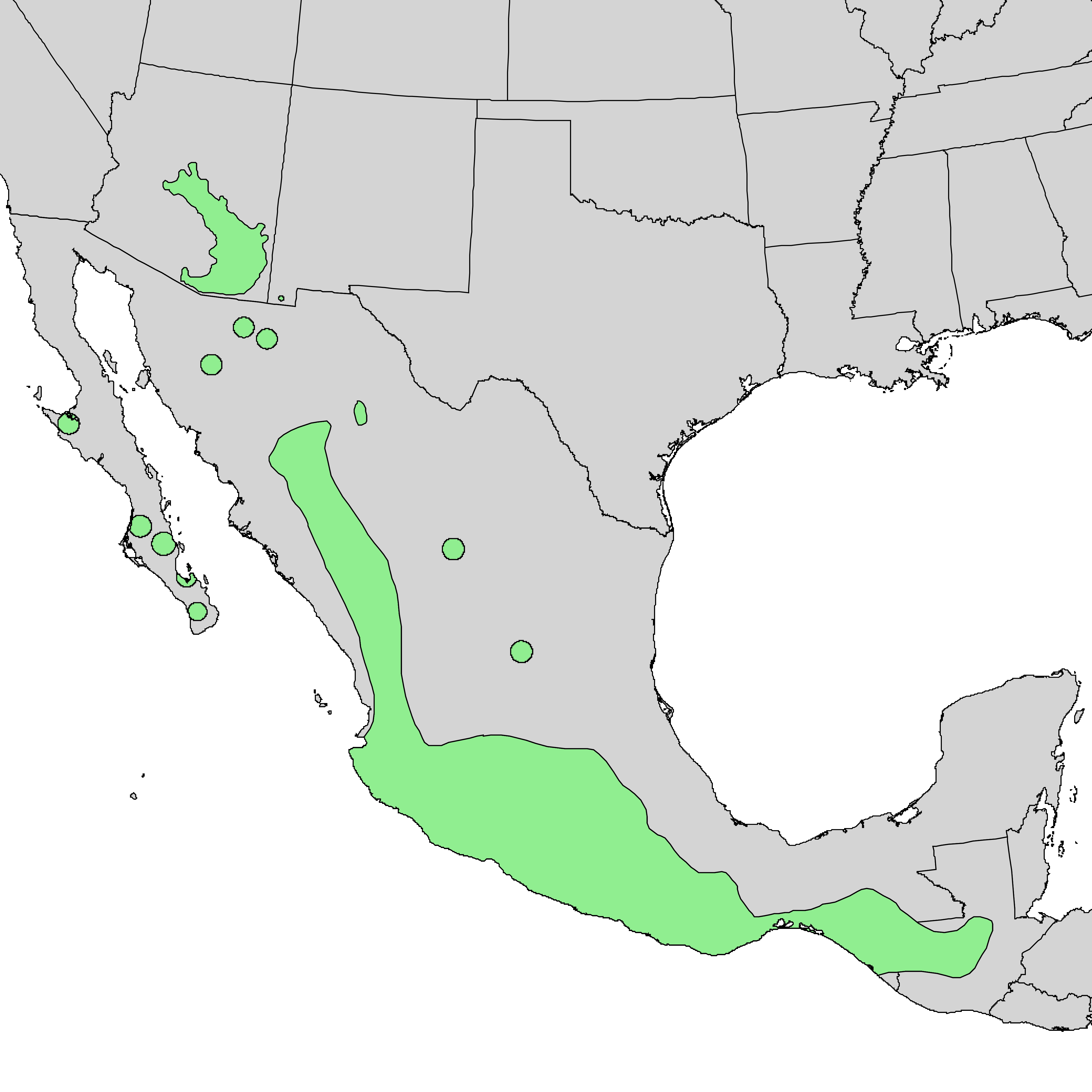 Natural distribution map for Salix bonplandiana (Bonpland willow)